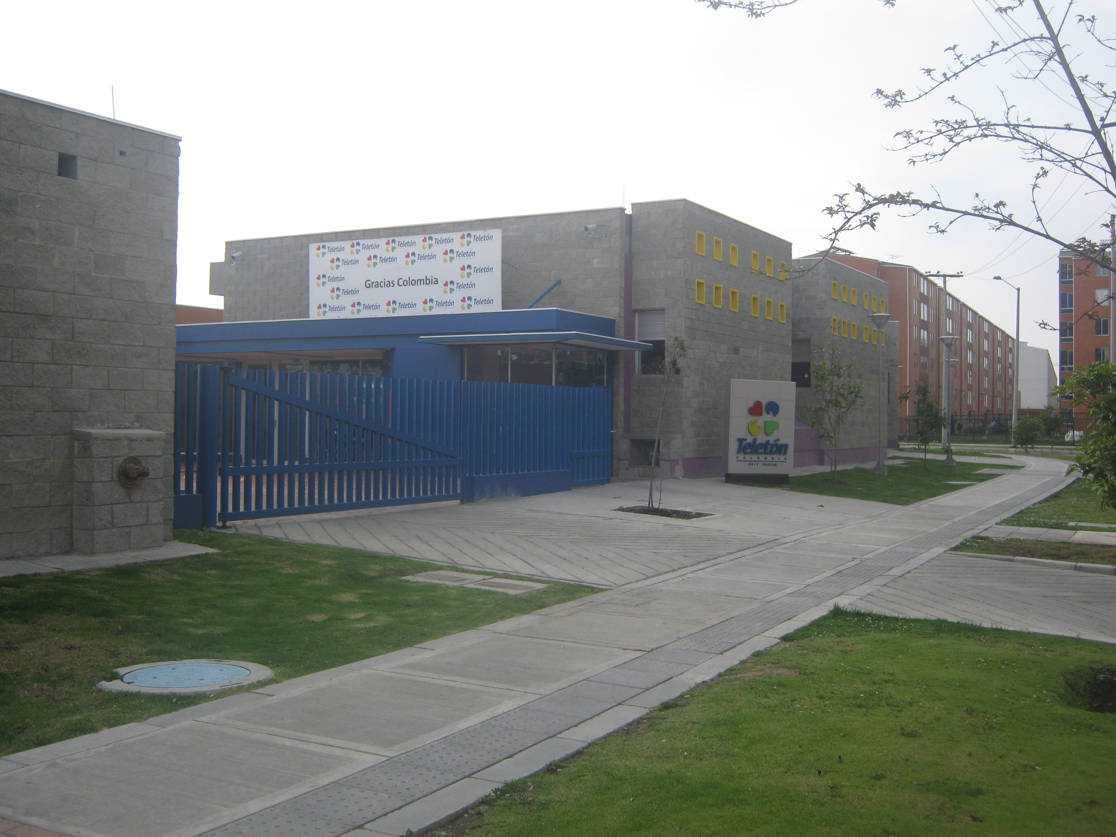 CRIC Teleton Soacha's Headquarters, Ciudad Verde